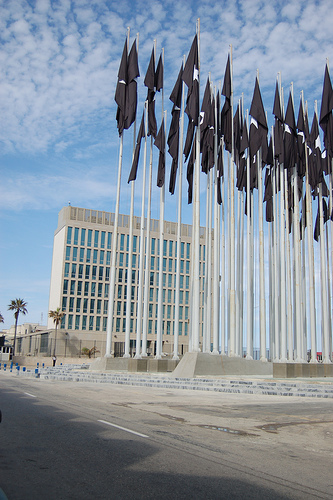 Us Interests Section in Havana Cuba